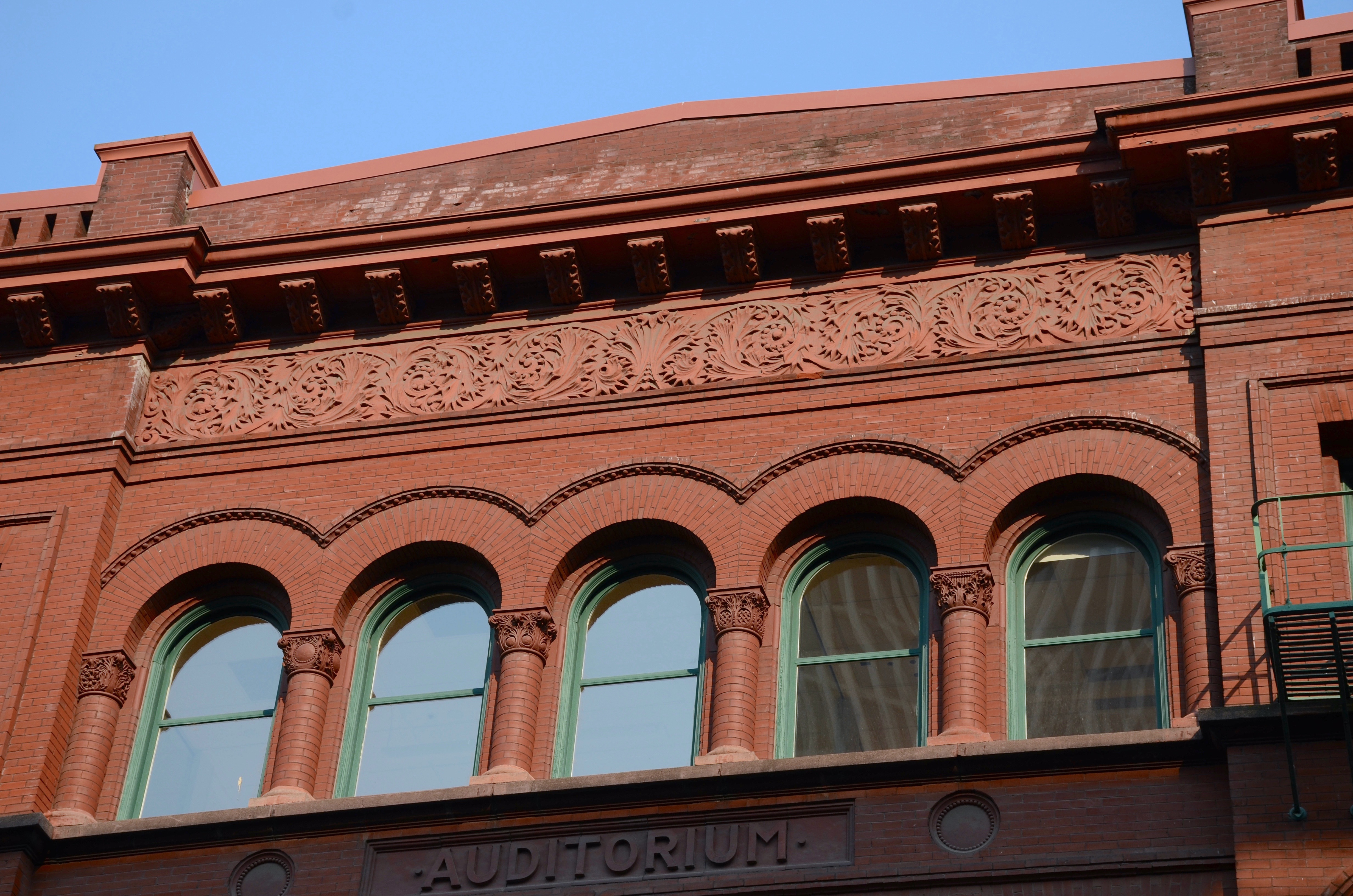 Top-floor façade detail of the Auditorium and Music Hall building, on SW 3rd Avenue in Portland, Oregon. Built in 1894, the four-story building is listed on the U.S. National Register of Historic Places.